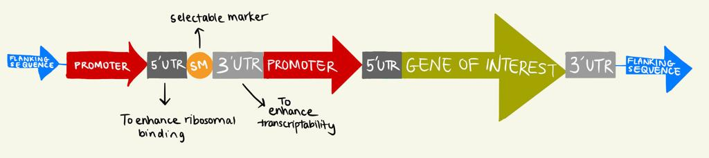 An example schematic of a plant gene cassette that could be utilized for plant transplastomic, with most of the necessary elements required for good gene expression